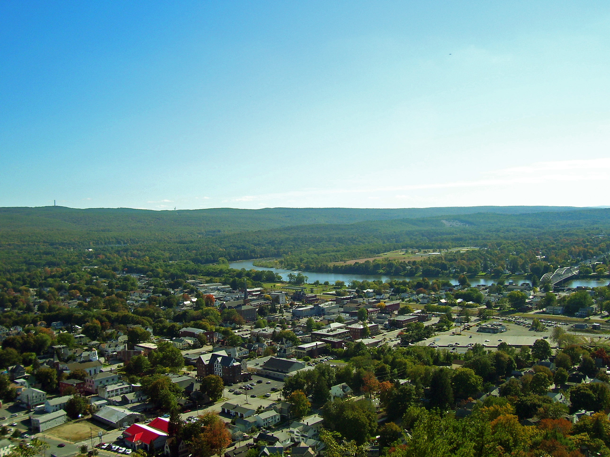 Photographed 2006-10-06 from the Elks-Brox Park overlook by Daniel Case